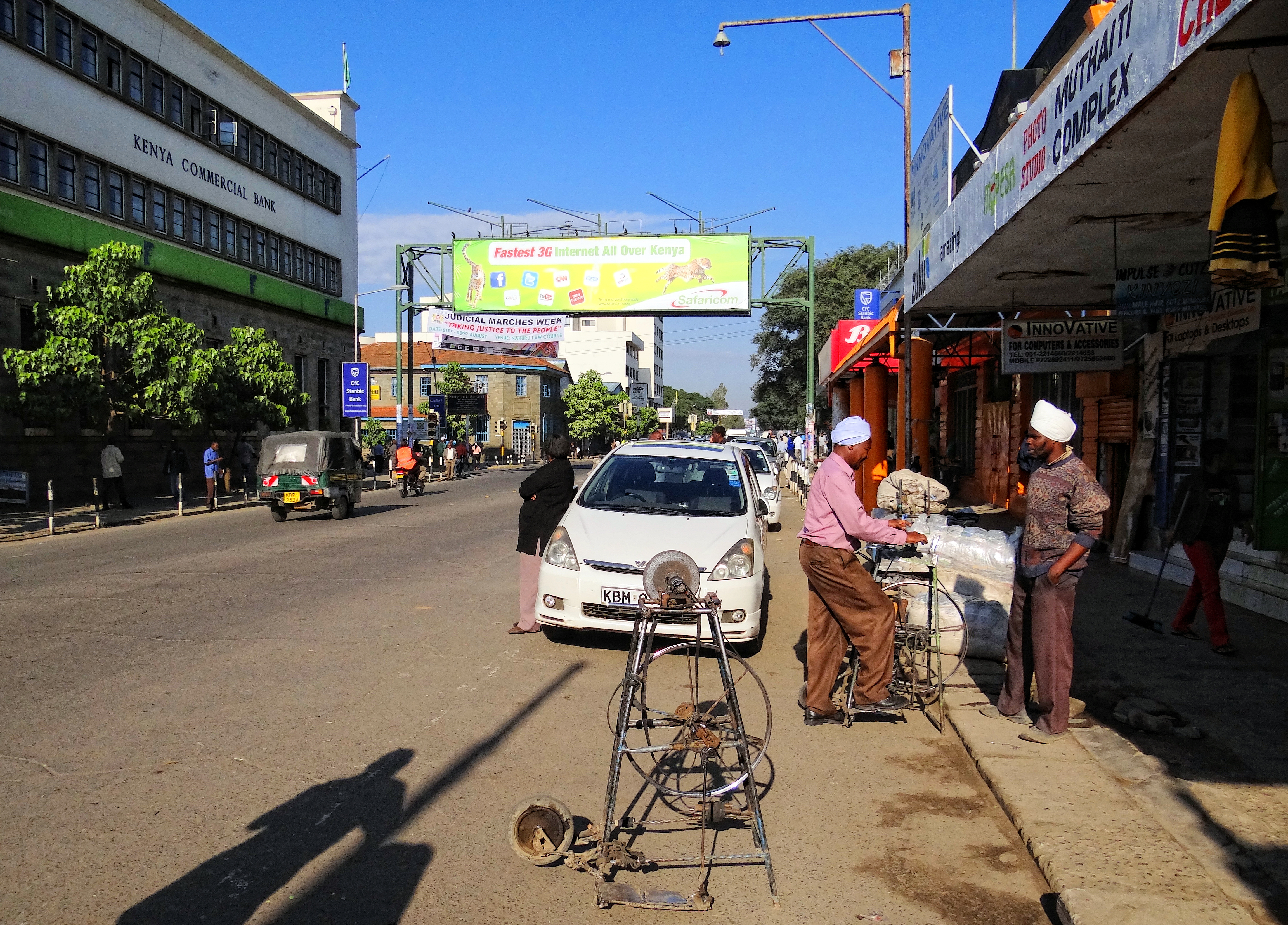 A glimpse of everyday life on Kenyatta Avenue, the main street through Nakuru, Kenya.